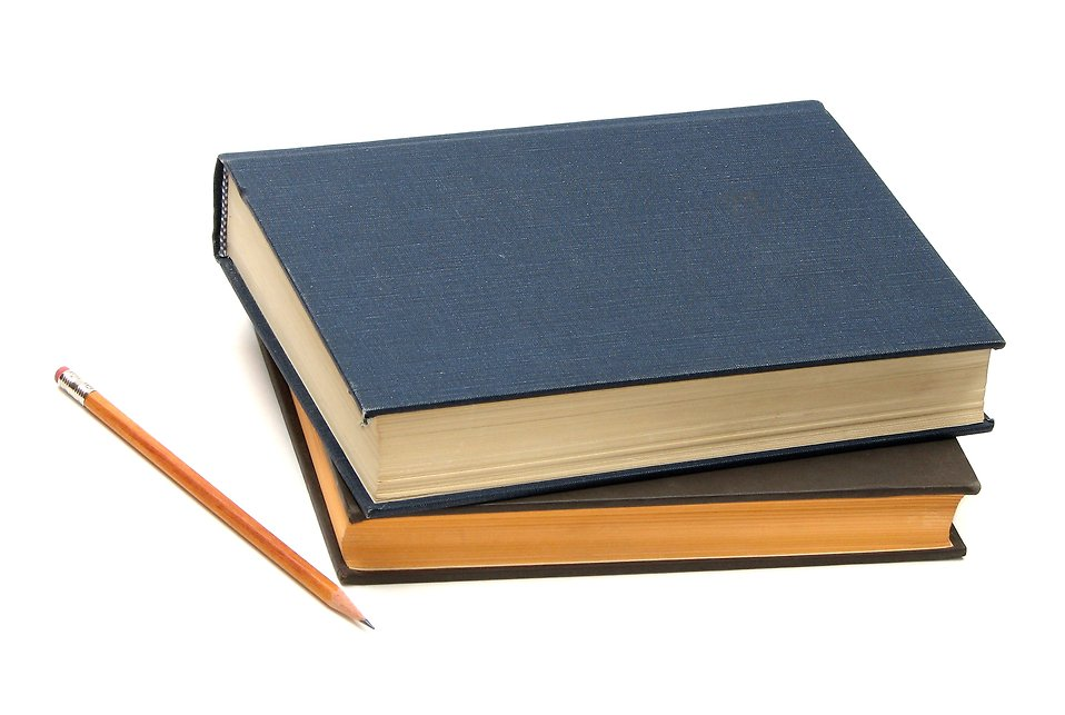 Books